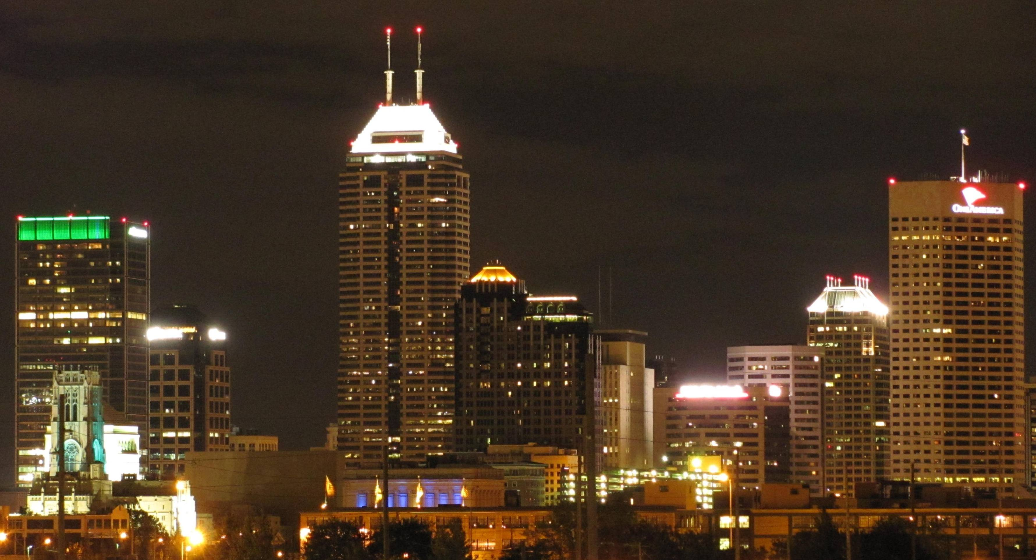 Indianapolis skyline on the night of 10/03/2010--taken from the top floor of the Methodist Hospital south parking garage.